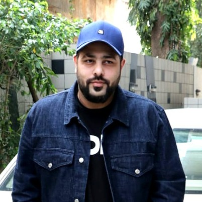 Badshah spotted before the shoot of No Filter Neha.